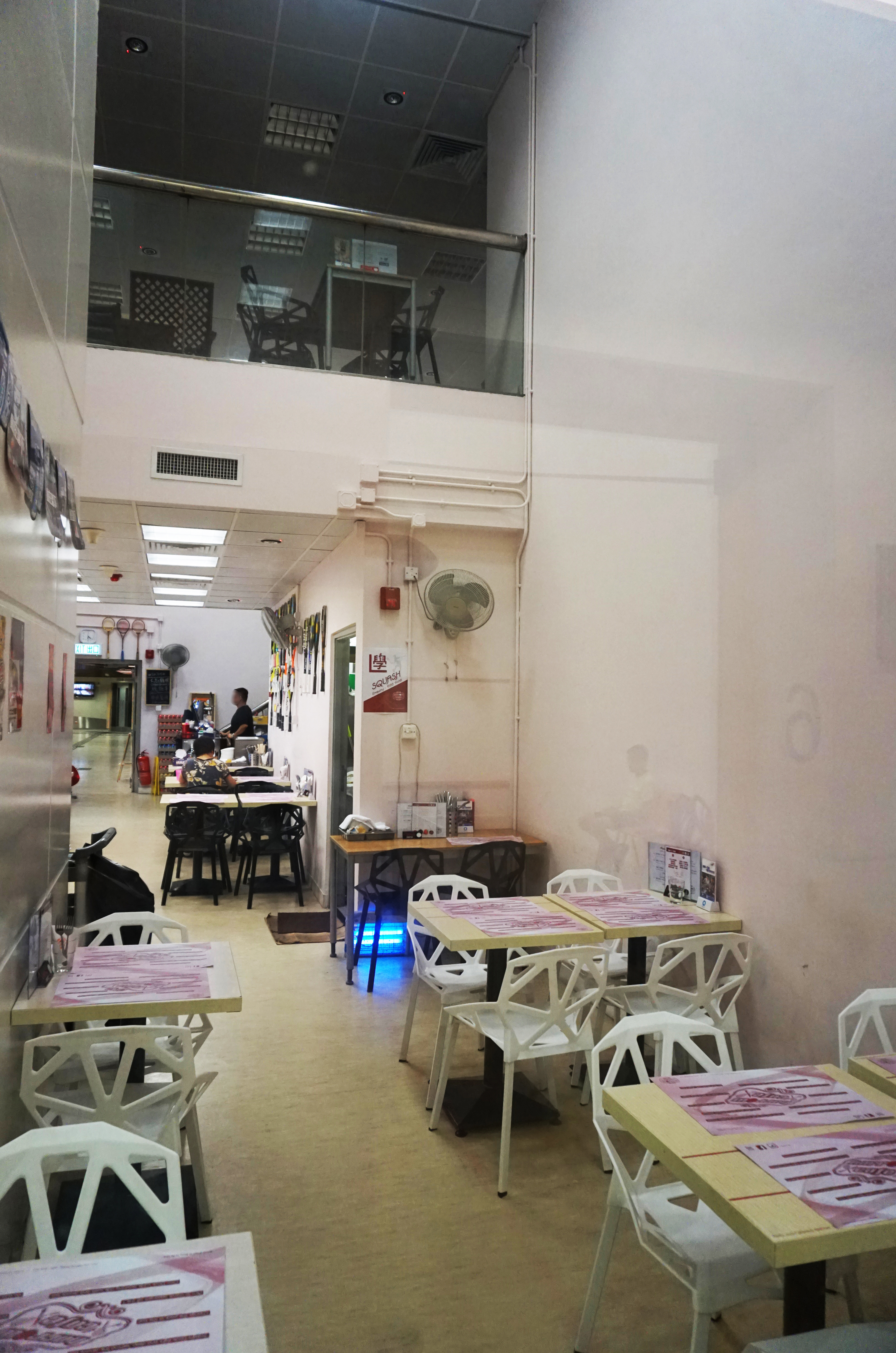 Squash Centre in Admiralty, Hong Kong.